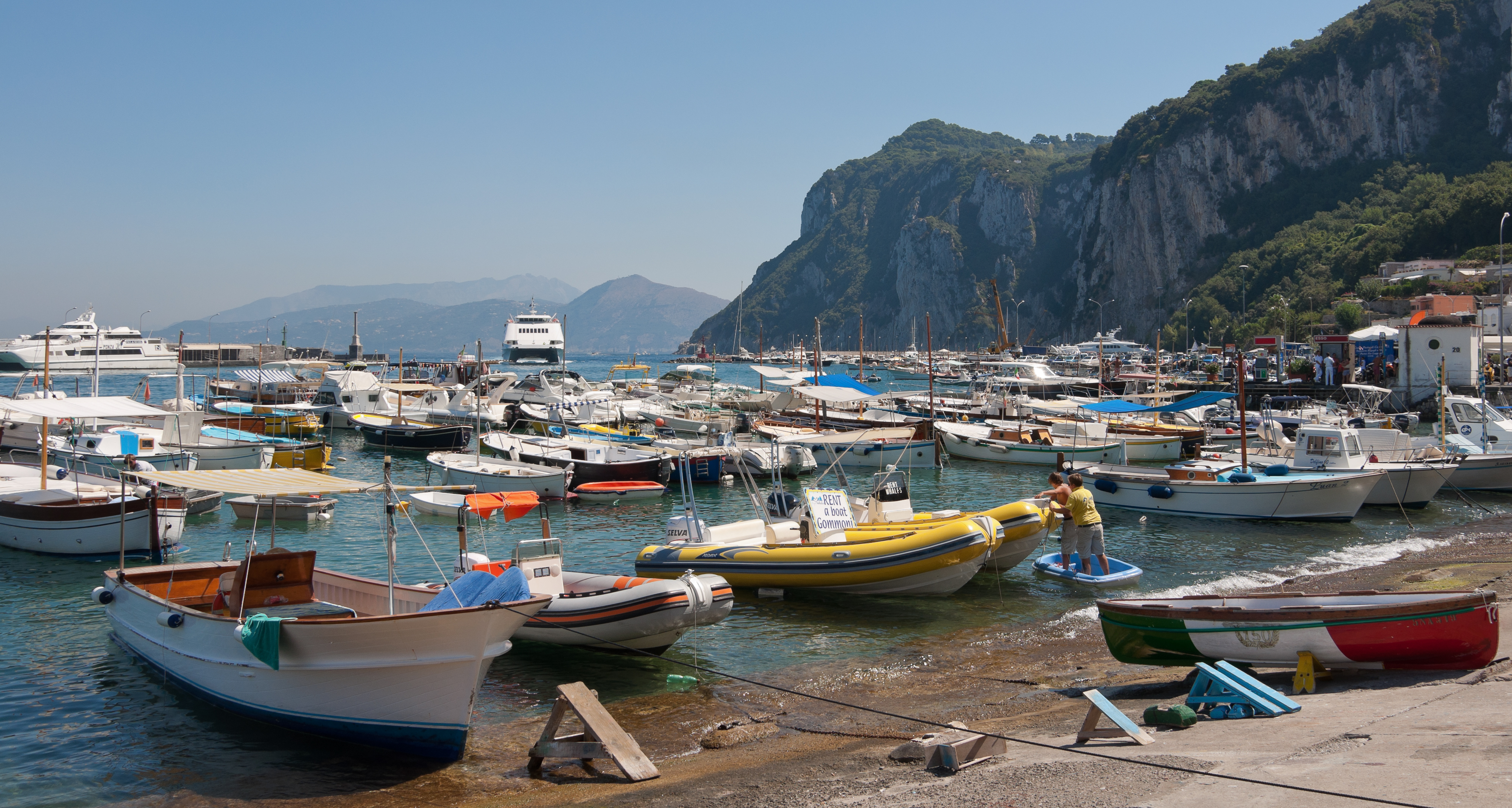 A view of the Marina Grande dock in Capri island, Italy.